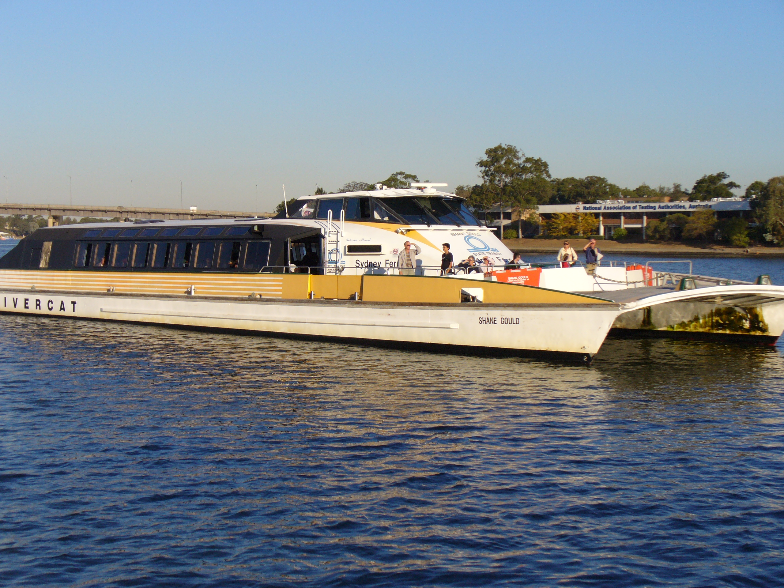 Parramatta River Cat (Shane Gould), taken from side.